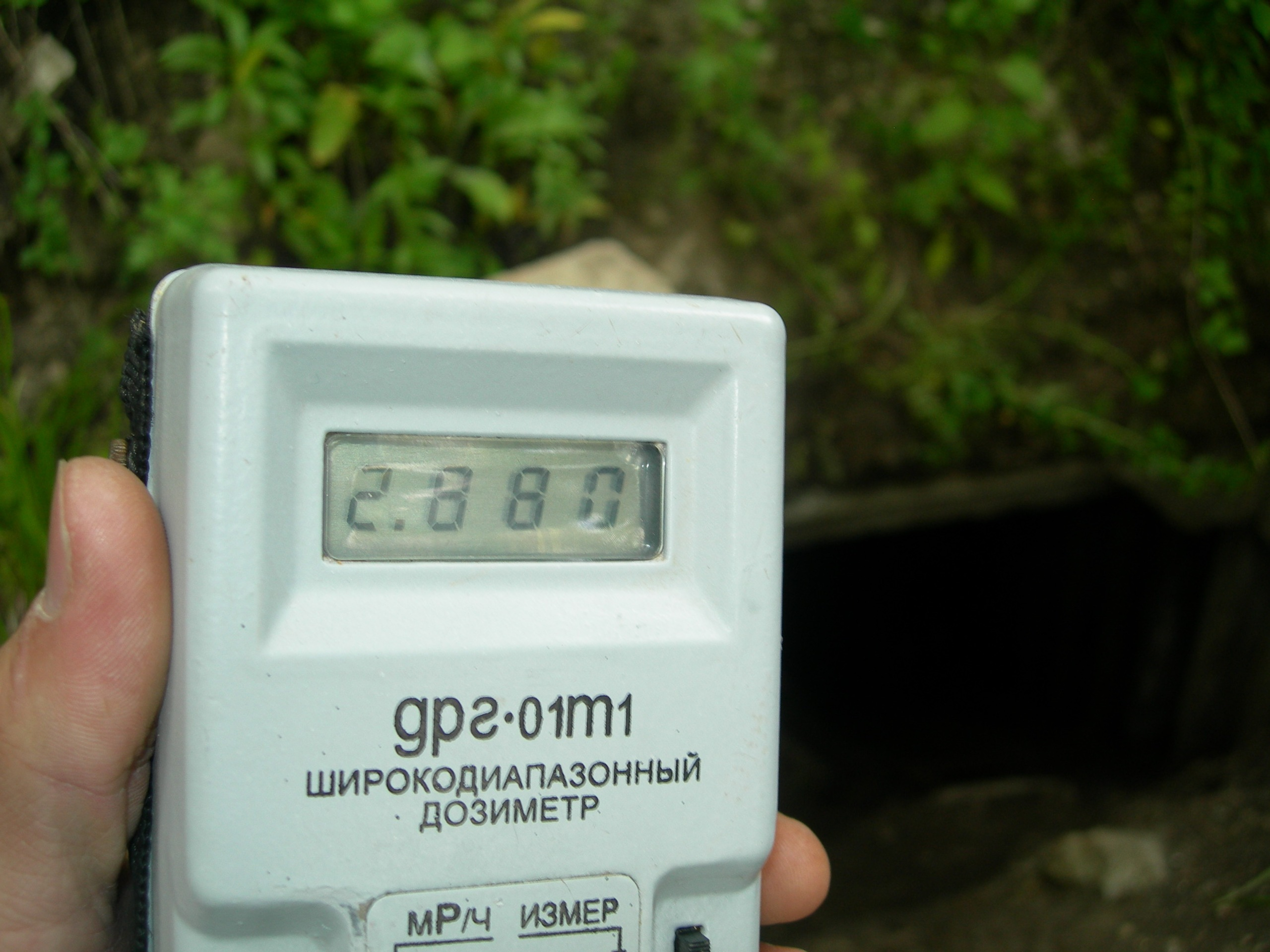 High radiation level near abandoned uranium mine